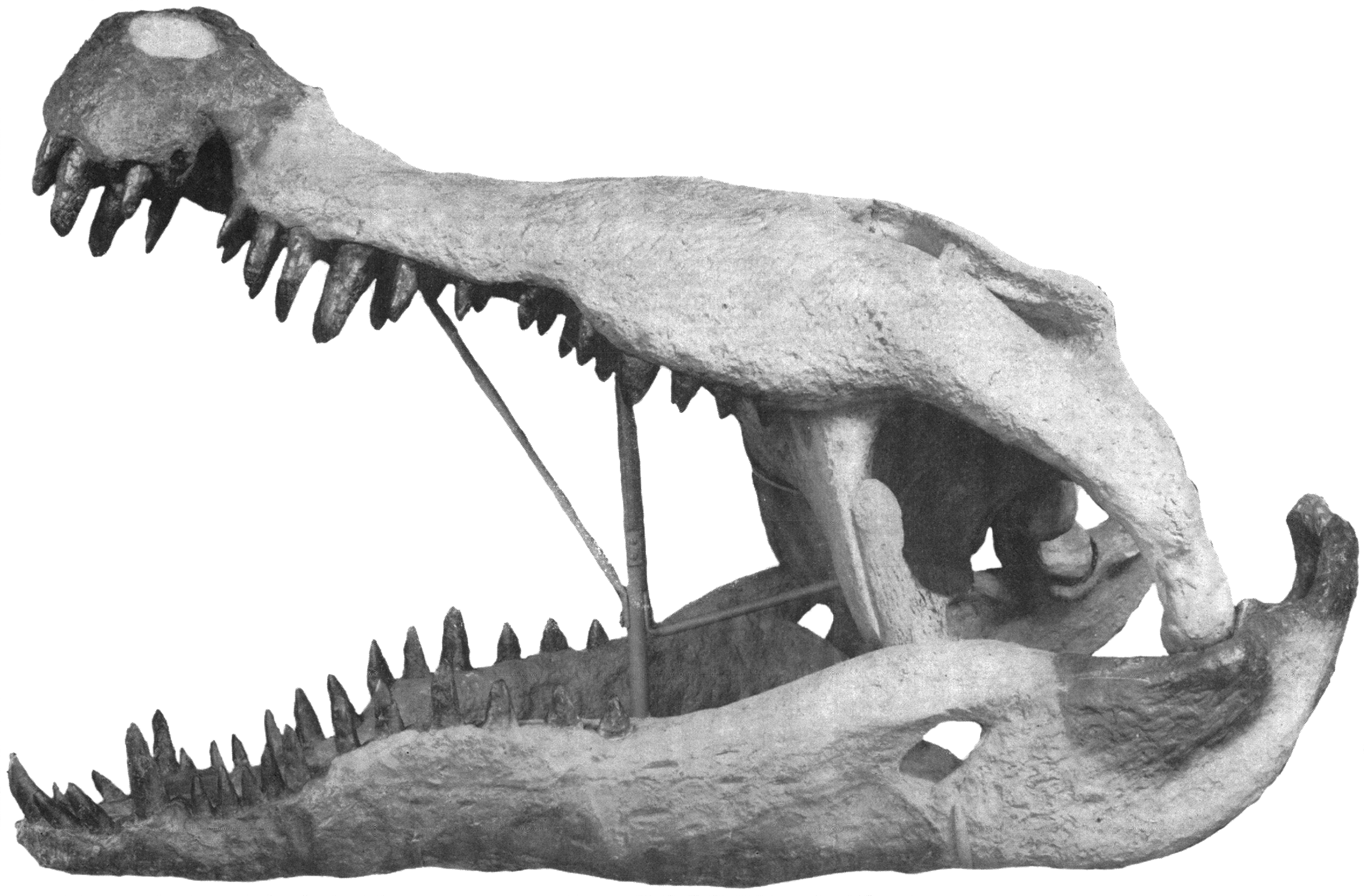 Photograph of "Phobosuchus riograndensis" (Deinosuchus rugosus) skull reconstruction: the actual fossils are of a darker shade, while the majority of the skull is light-shaded plaster.